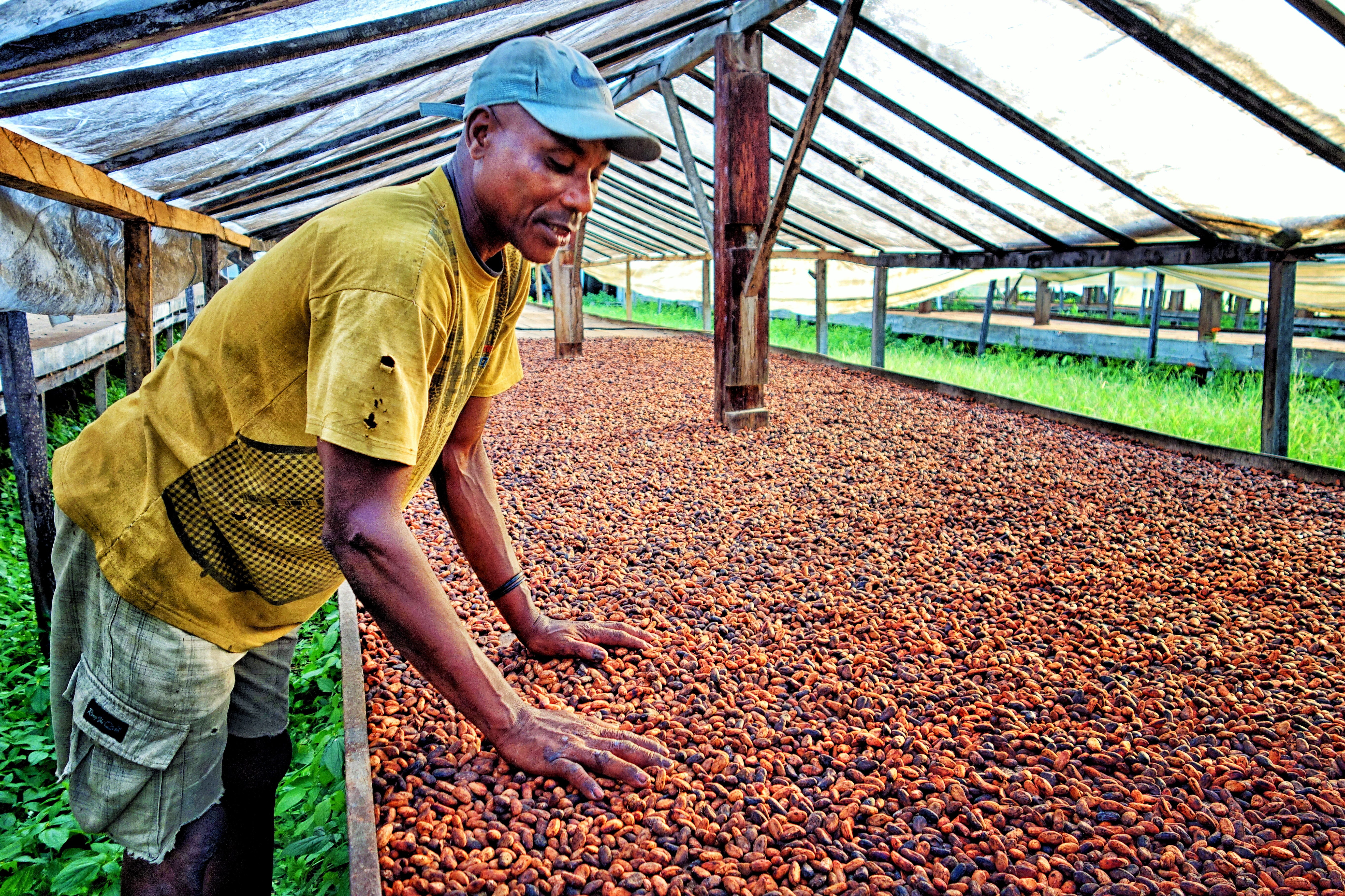 At the coffee farm in Sao Tome and Principe This is an image of "African people at work" from Sao Tome and Principe